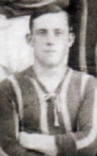 Charles Allwright taken from a Brentford FC postcard by Wakefields published in 1912.